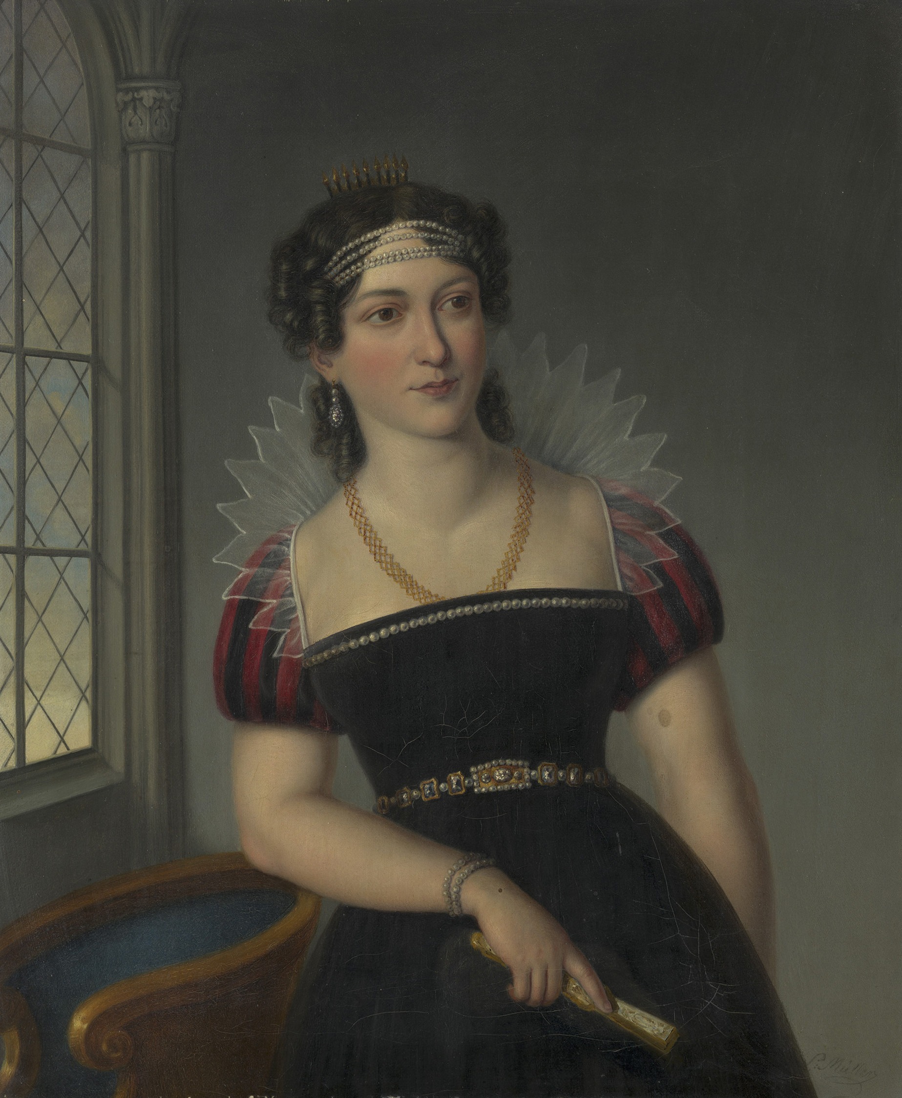 Portrait of Victoria, Duchess of Kent (1786-1861), when Princess Victoria of Saxe-Coburg-Gotha